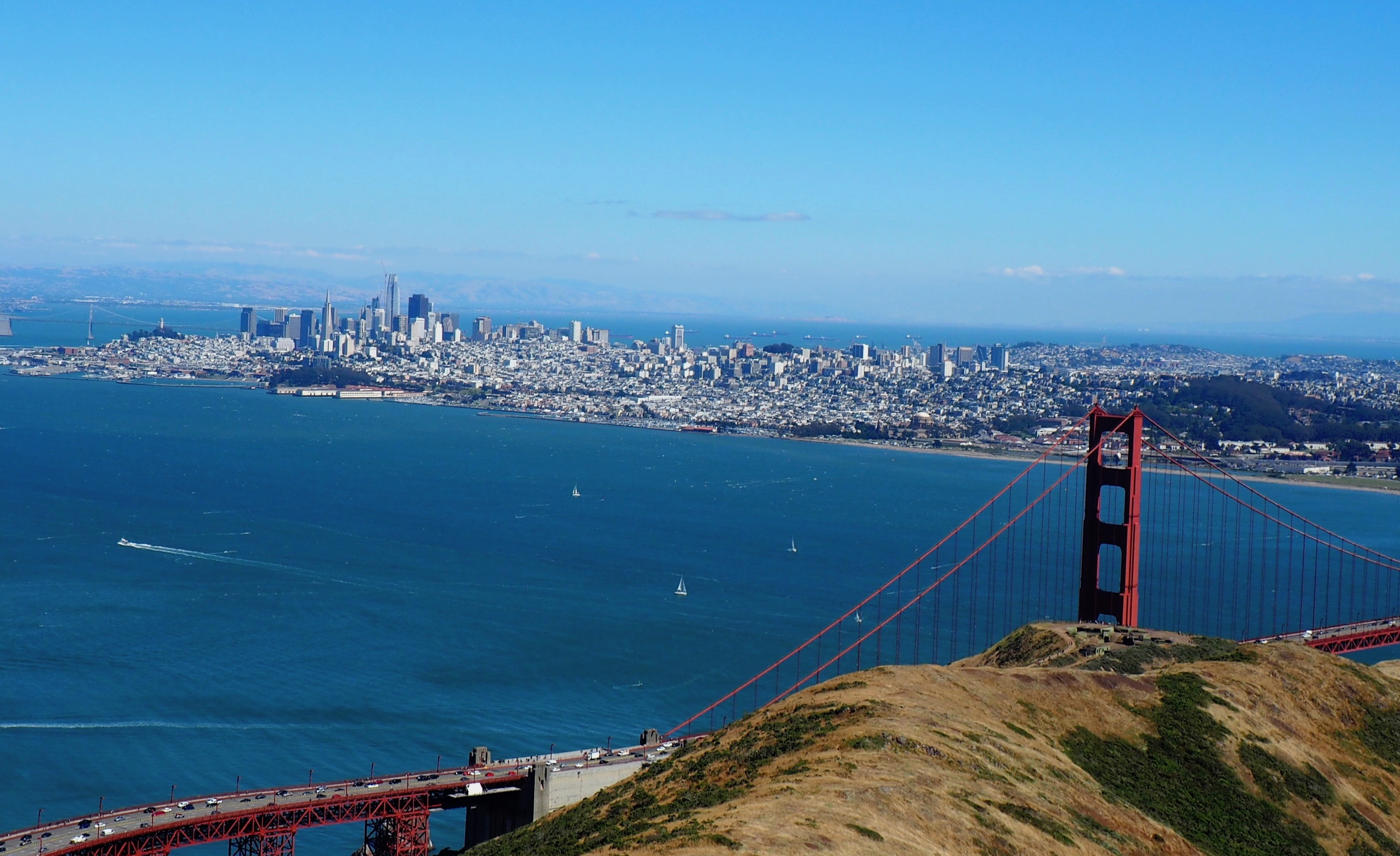 San Francisco and the Golden Gate Bridge from the Marin Headlands in June 2017